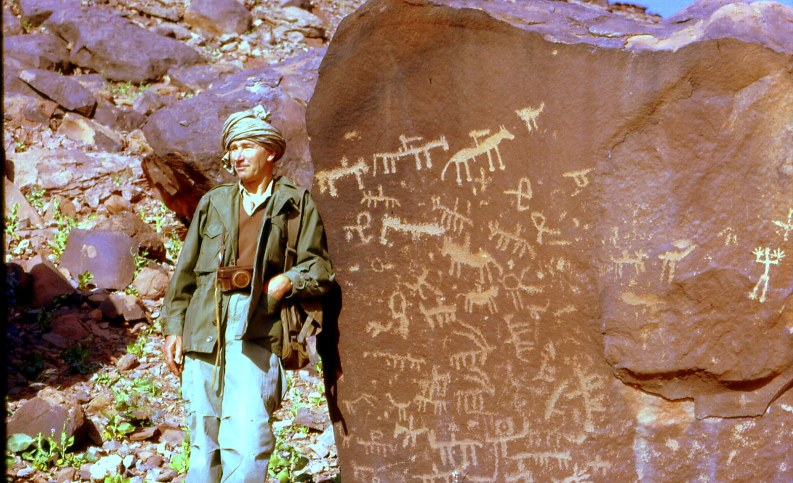 Henri Lhote and rock art in the Sahara Desert in Mauritania